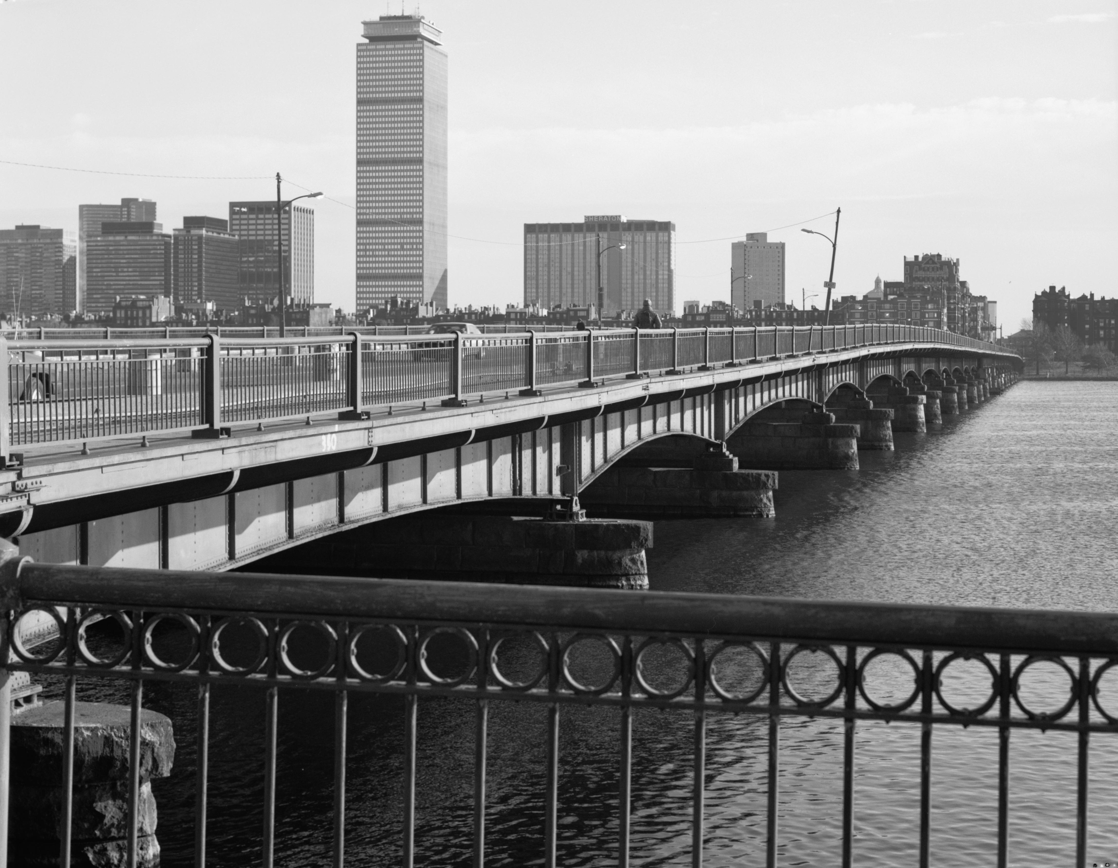 Harvard Bridge, Spanning Charles River at Massachusetts Avenue, Boston ( Suffolk County, Massachusetts) - Cropped Note the construction barrels and the condition of the bridge. During the period when this picture was taken, the bridge was under a reduced load as a result of inspection after the 1983 failure of the I-95 bridge over the Mianus River in Connecticut. The bridge superstructure was replaced with a similar-looking construction shortly after this picture was created.